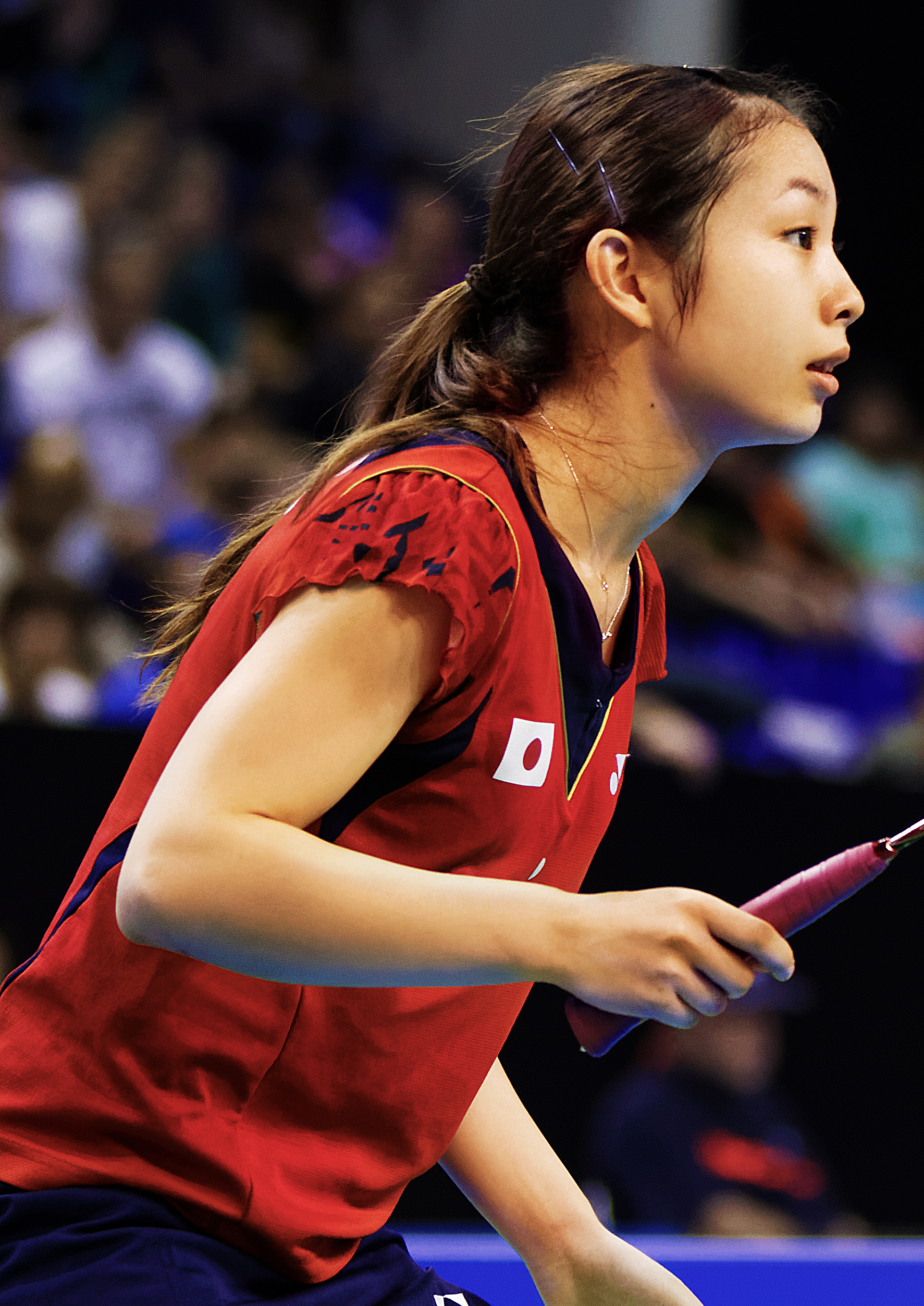 2013 French open. Mixed's doubes quarterfinal. Sudket Prapakamol and Saralee Thungthongkam vs Kenichi Hayakawa and Misaki Matsutomo. Misaki Matsutomo.